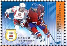 Part of Belarus souvenir sheet no. 72, commemorating the 2010 Winter Olympics and featuring ice hockey.